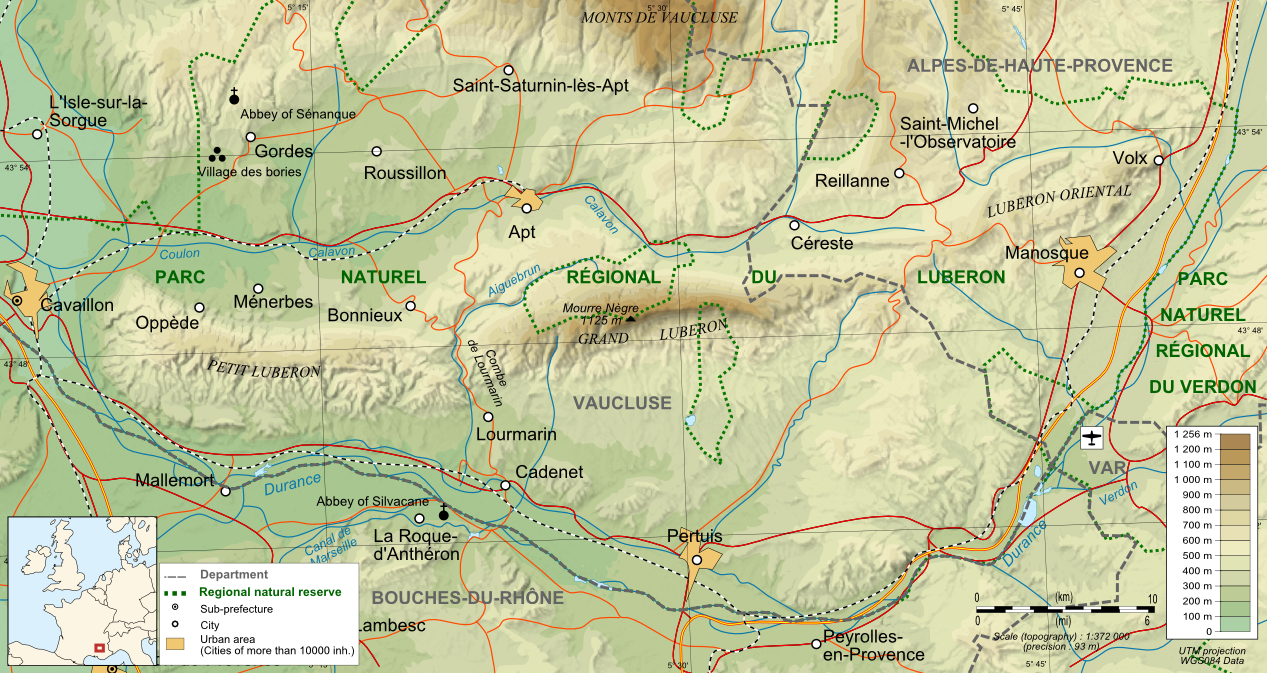 Topographic and administrative map in English of Luberon